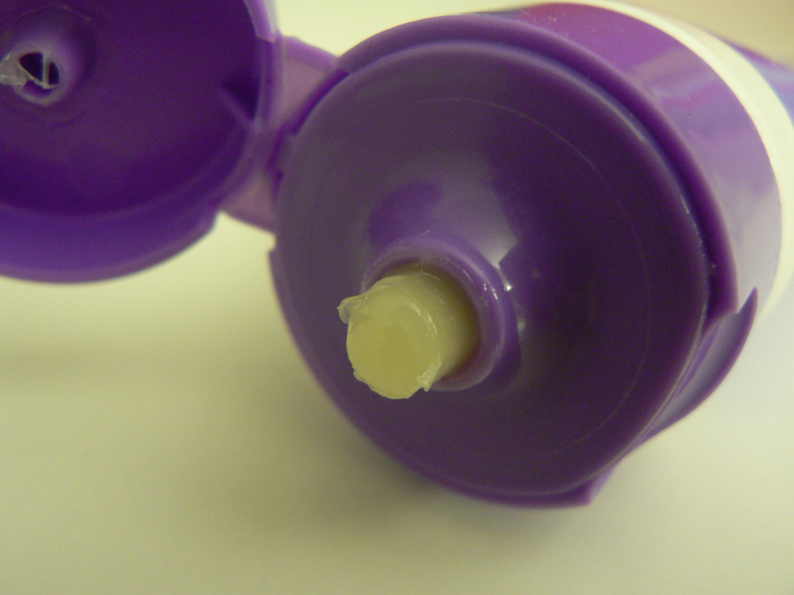 Lansinoh lanonlin ointment.